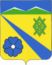 Coat of arms of Pervaya Siniuja, Labinki Raion, Krasnodar krai, Rusia.